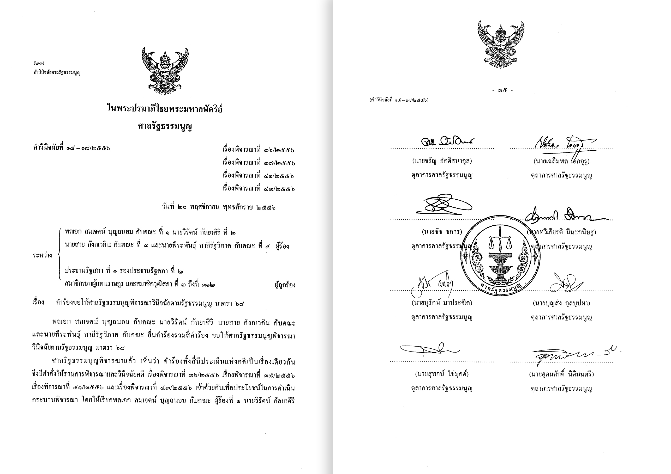 A derivative work of File:2556.15-18 Constitutional Court Decision.pdf. See further information at the description of such file.